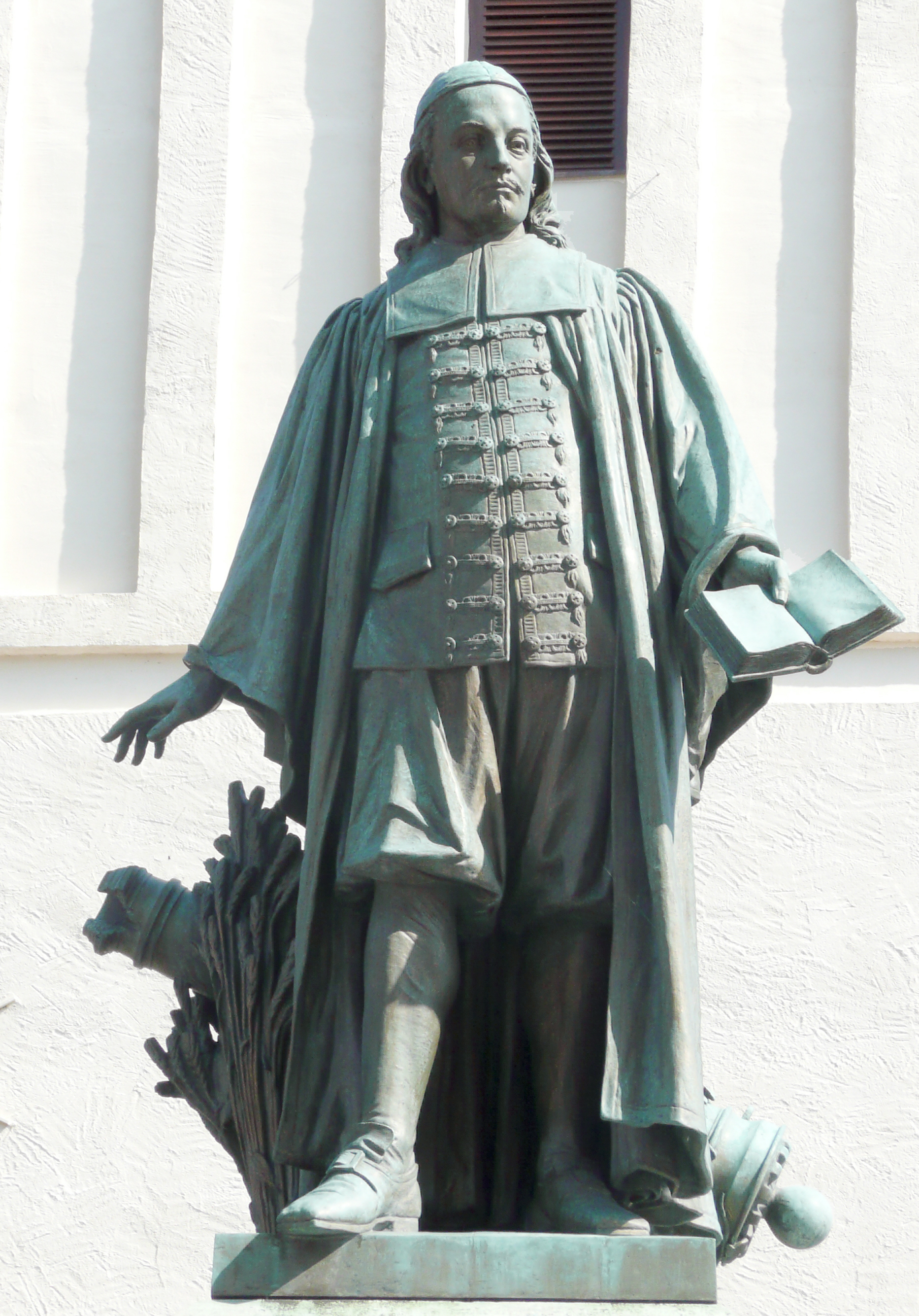 Paul Gerhardt Statue in Luebben, by: Friedrich Pfannschmidt